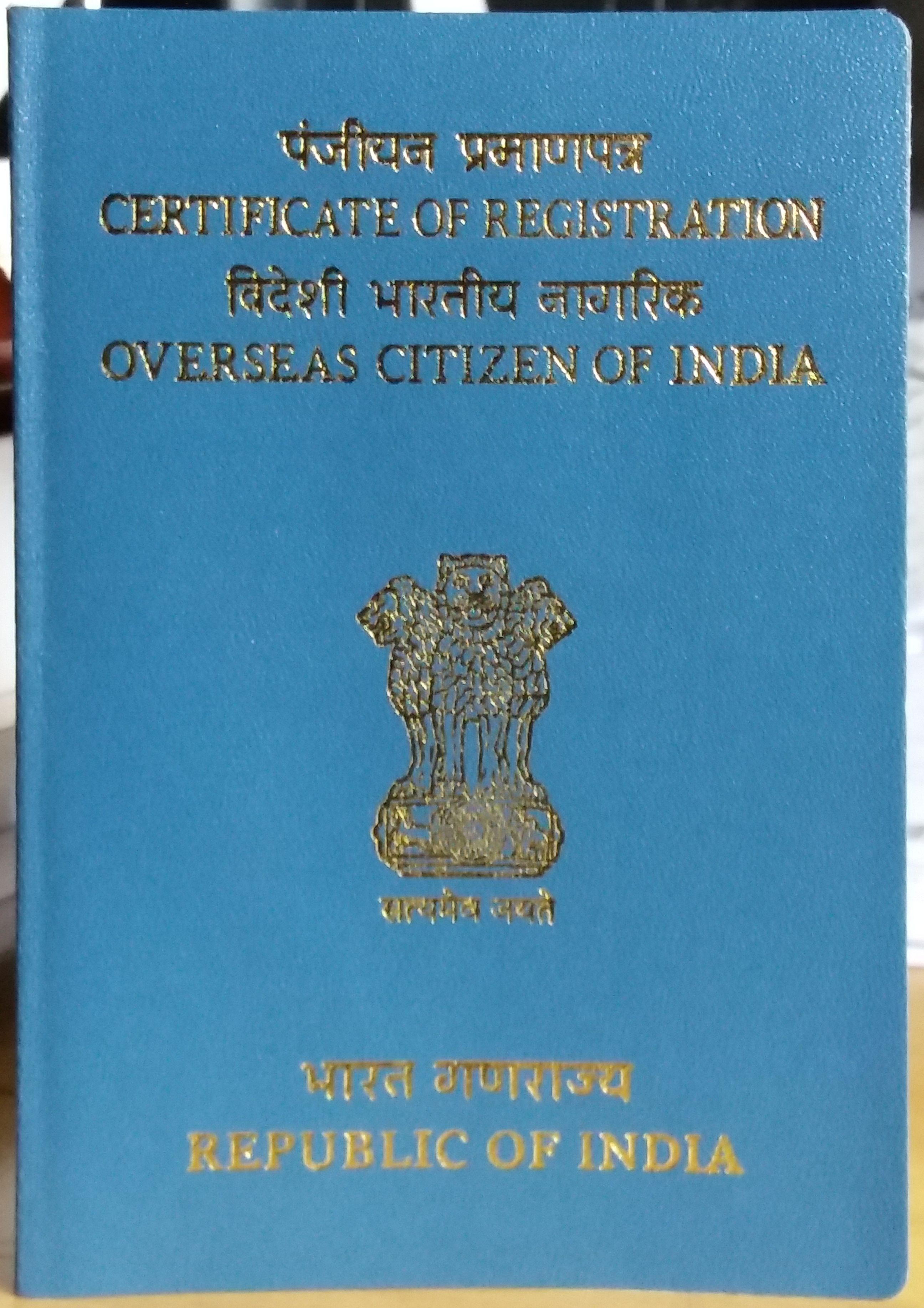 Overseas Citizen of India card.